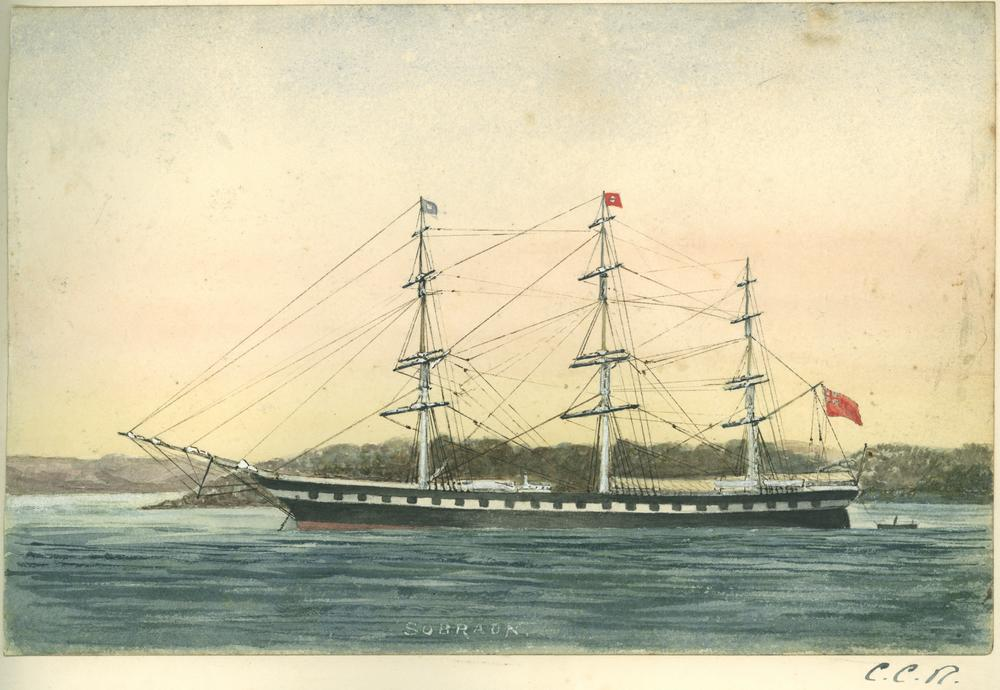 The clipper Sobraon, watercolour by Charles Collinson Rawson